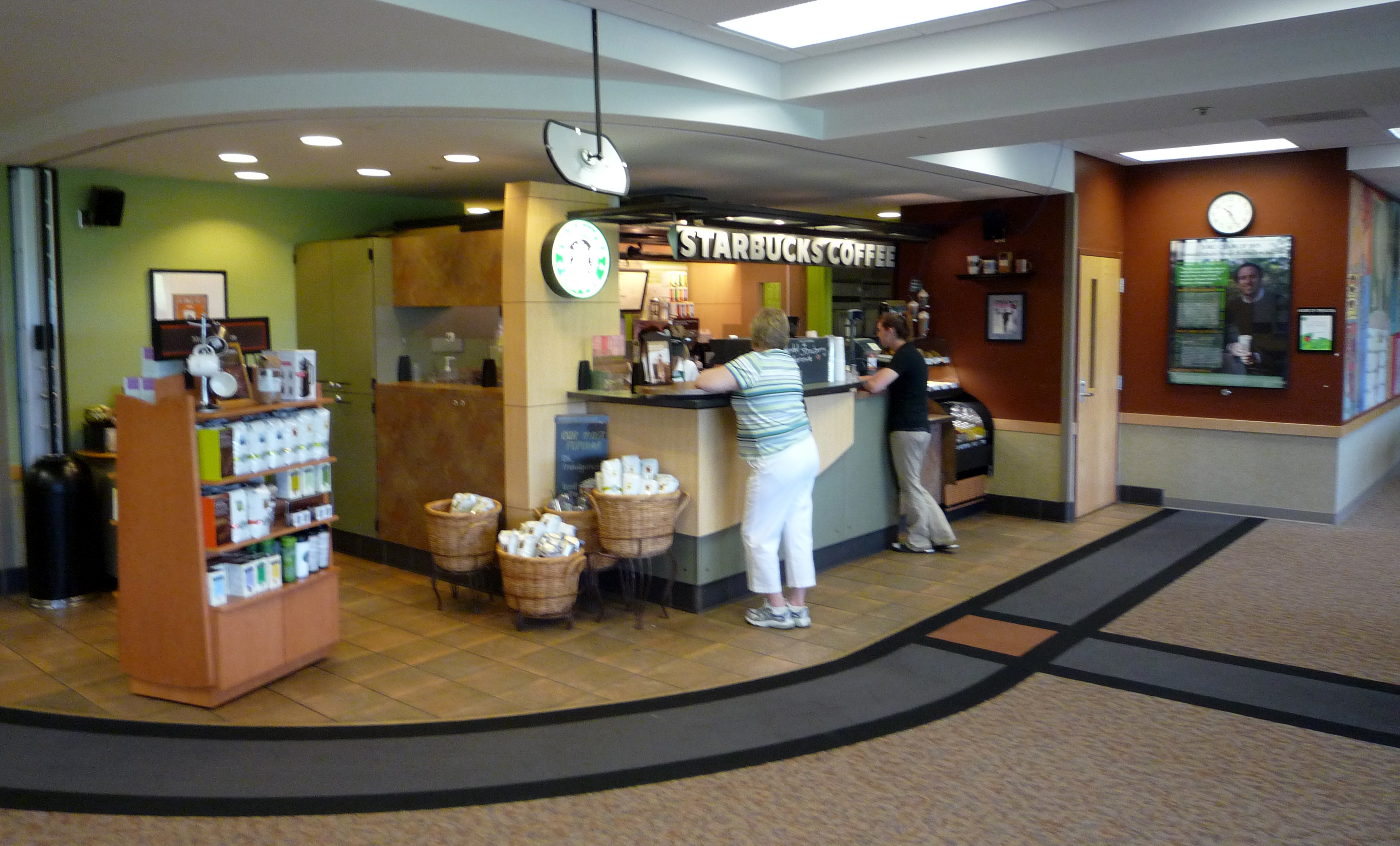 Starbucks in the Learning Resource Center, Northern Michigan University, Marquette, Michigan, USA. This location is notable because Howard Schultz, the longtime CEO of Starbucks (picture in the poster at right), is an alumnus of the university. It was the first Starbucks in Michigan's Upper Peninsula.